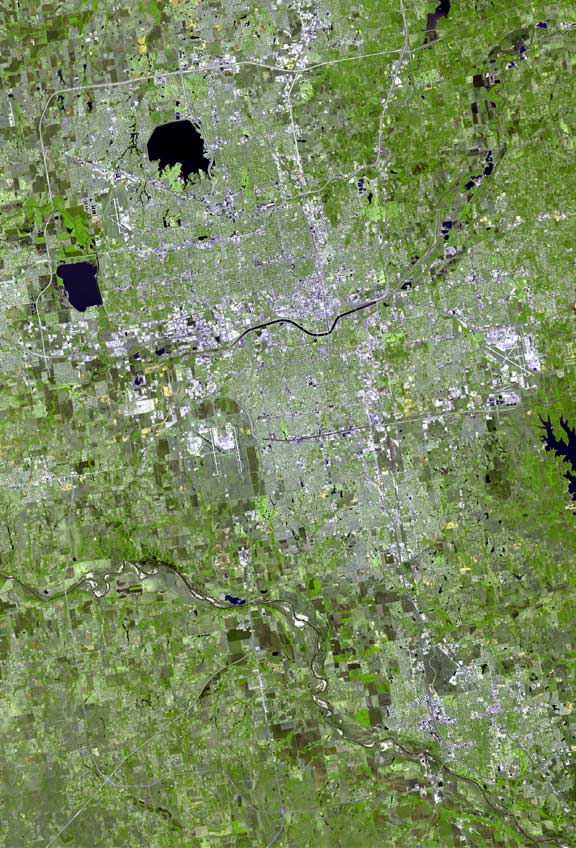 The raw satellite imagery shown in these images was obtain from NASA and/or the US Geological Survey. Post-processing and production by